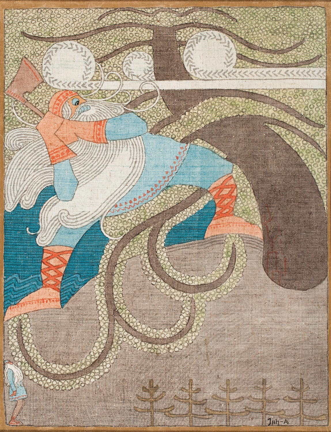 The tiny man in the lower left corner is Väinämöinen marveling at the gigantic man felling the oak.